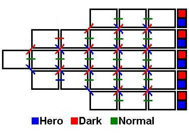 A diagram showing how completing Hero, Dark, or Normal missions on the video game Shadow the Hedgehog affects the game's storyline.